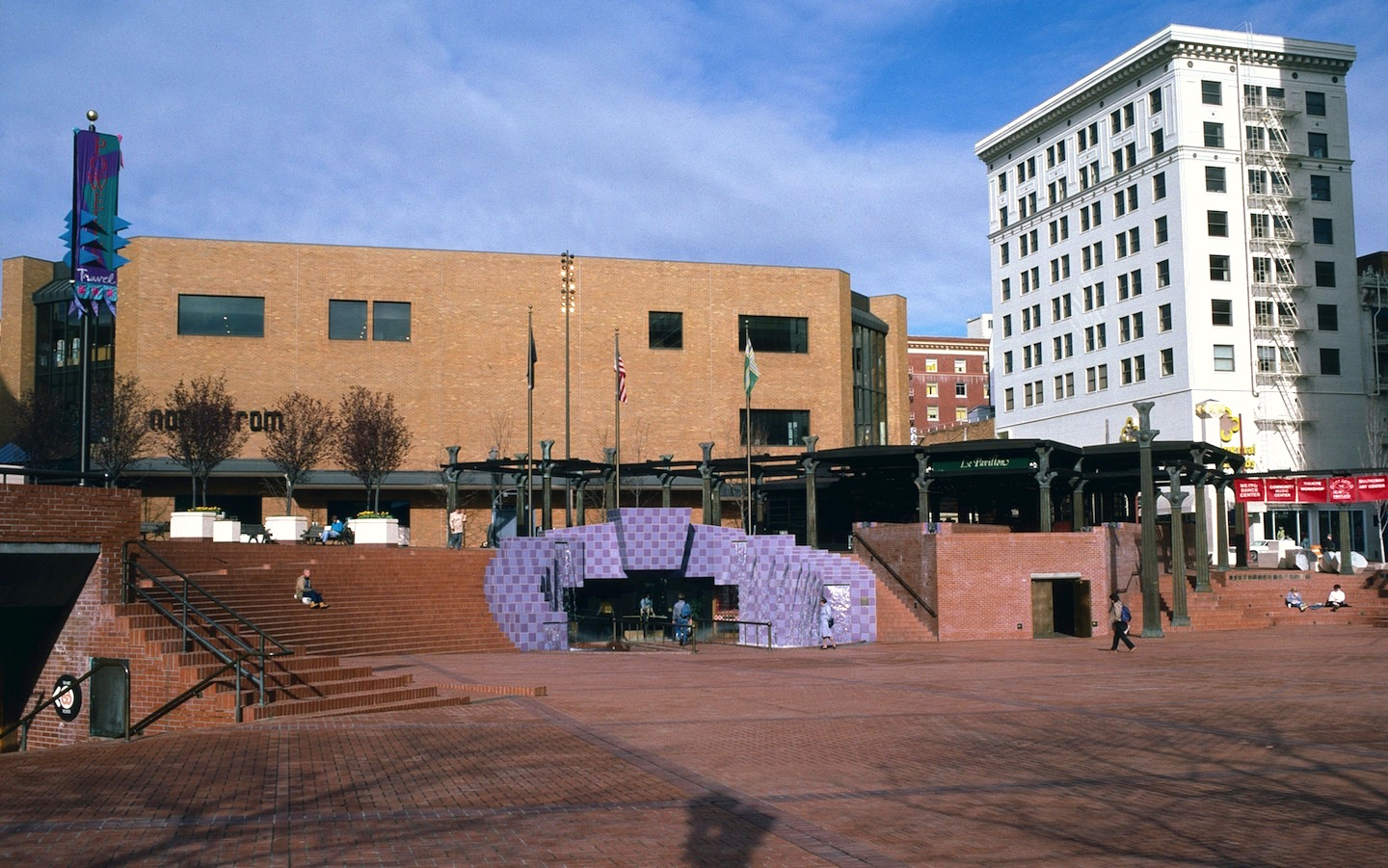 Portland's Pioneer Courthouse Square in 1986. Note the sign for Powell's Travel Store at left (in operation 1985–2005); the purple tile that originally surfaced the waterfall fountain, replaced in 1995 with granite veneer; and "Le Pavillon" restaurant in the space now occupied by Starbuck's. This was also before the Weather Machine was installed (1988) and before Nordstrom expanded upwards (circa 1989) by adding a fourth story.